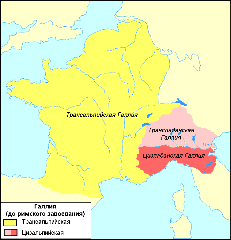 Gaul